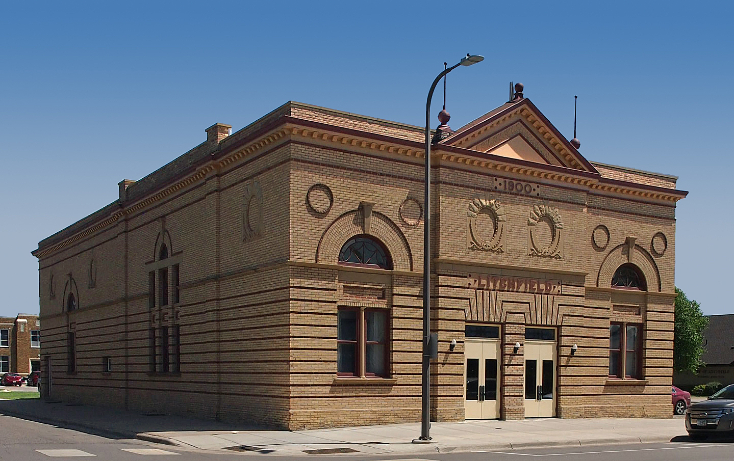 Litchfield Opera House, 136 N Marshall Ave, Litchfield, Minnesota, USA. Viewed from the northwest.